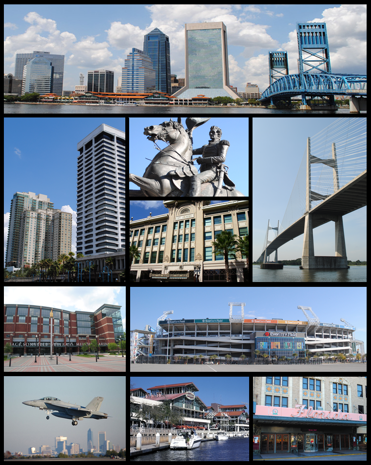 Photos I took around Jacksonville, Florida. However, the photos of the St. James Building, NAS Jax and the Jacksonville Landing were taken by different users who placed them into the public domain. More photos may be added or taken away.